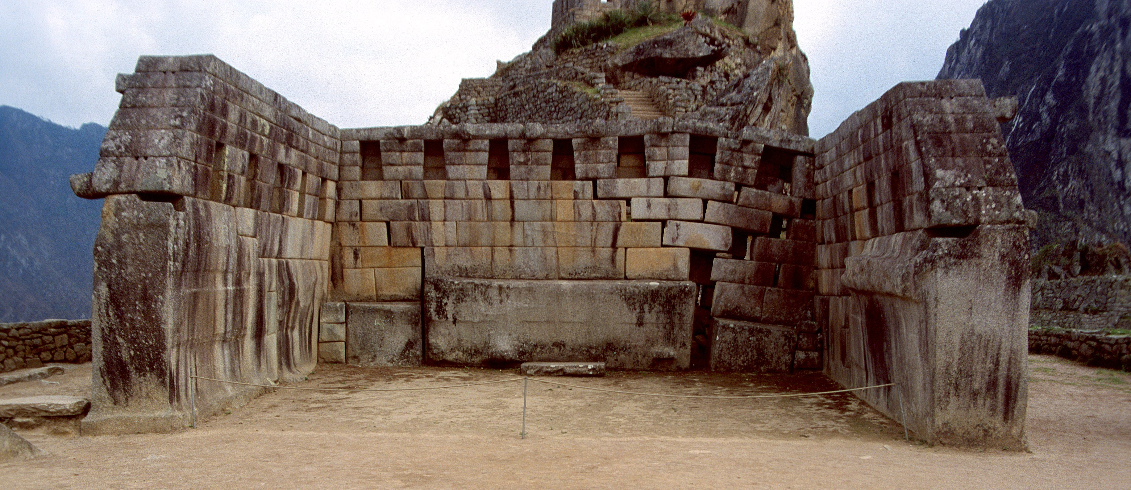 Machu Picchu, Perú. Sacred Square. Sacristy.